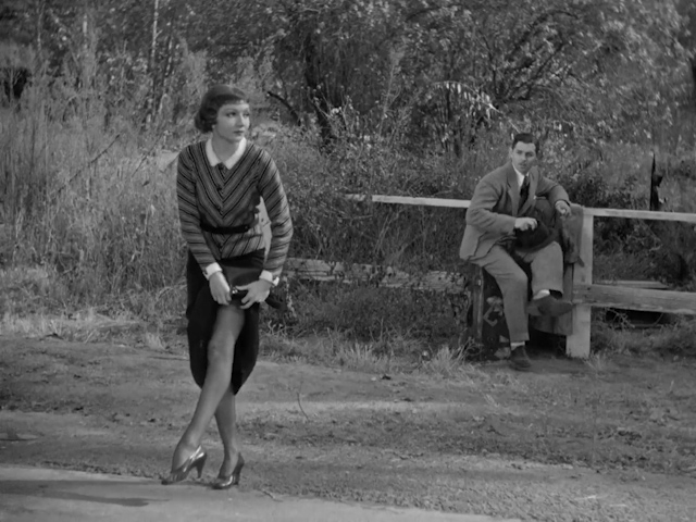 Cropped screenshot of Claudette Colbert and Clark Gable from the trailer for the film It Happened One Night. Colbert's costume is by costume designer Robert Kalloch.